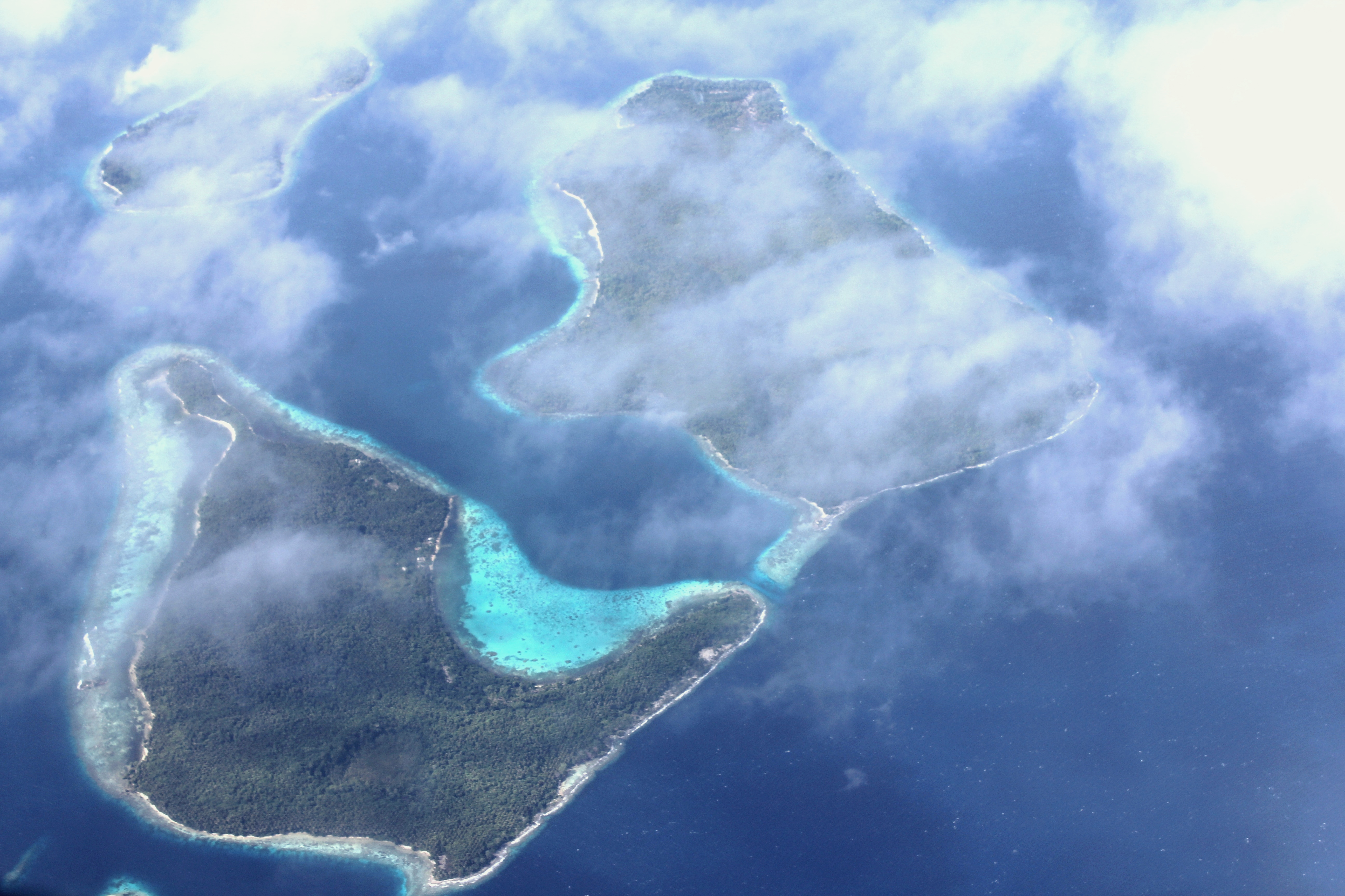 Uepi, Western Province, Solomon Islands, 2012.